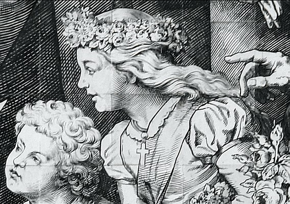 The only girl in the Fuerstenzug (Procession of Princes) at the outside of Dresden Castle